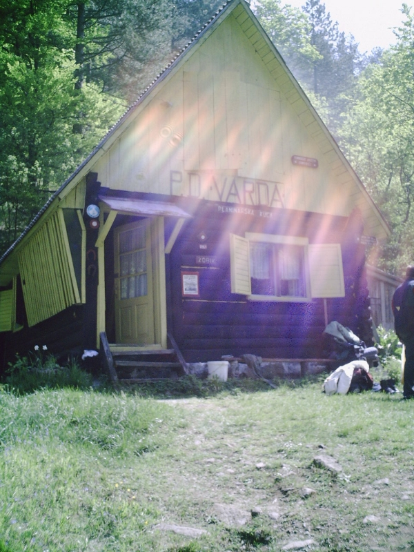 Mountain house "Varda", Banovići , Bosnia and Herzegovina